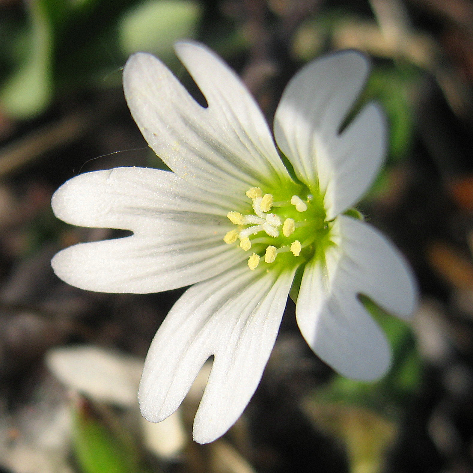 Arctic chickweed (Cerastium arcticum) photographed near Upernavik, Greenland.